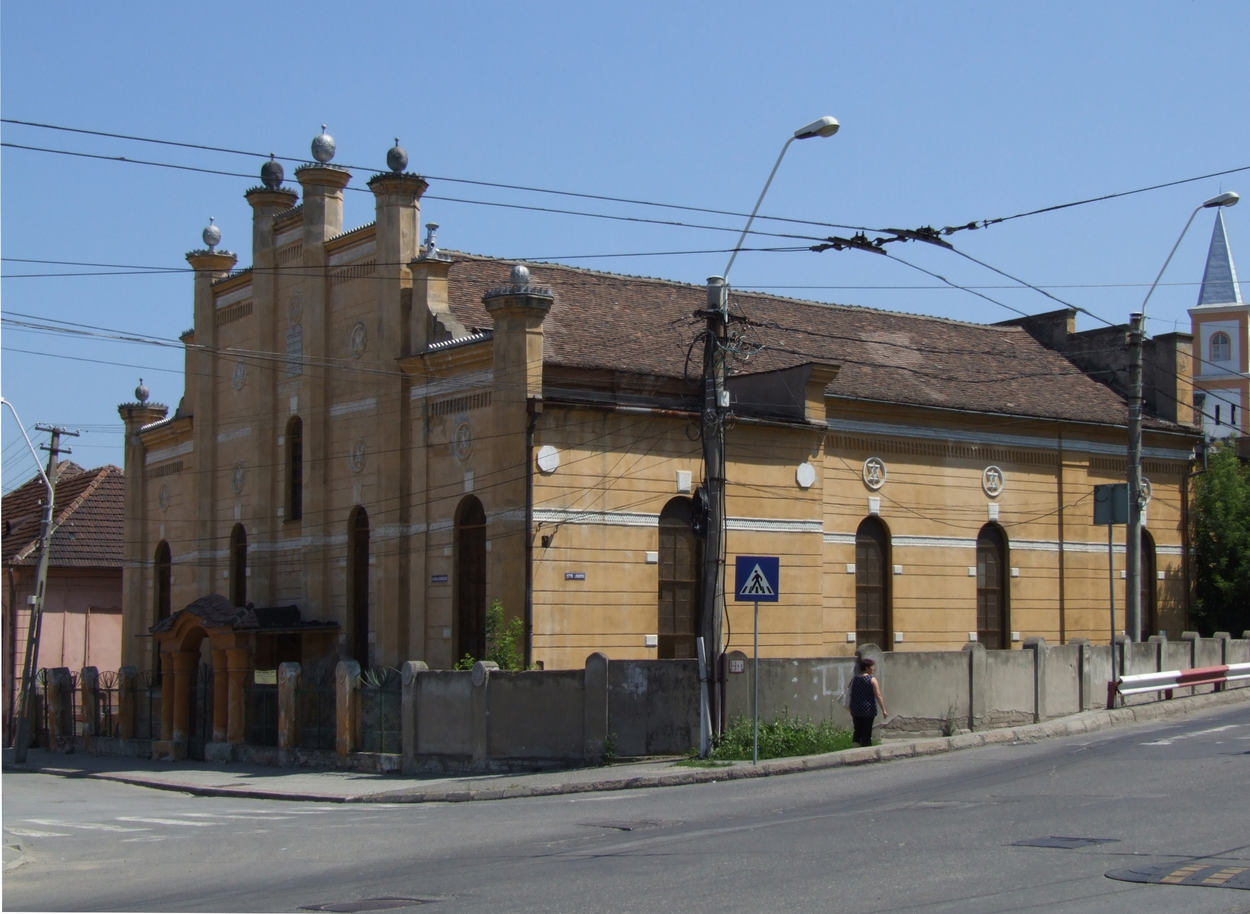 Synagogue in Mediaş (Mediasch, Medgyes)